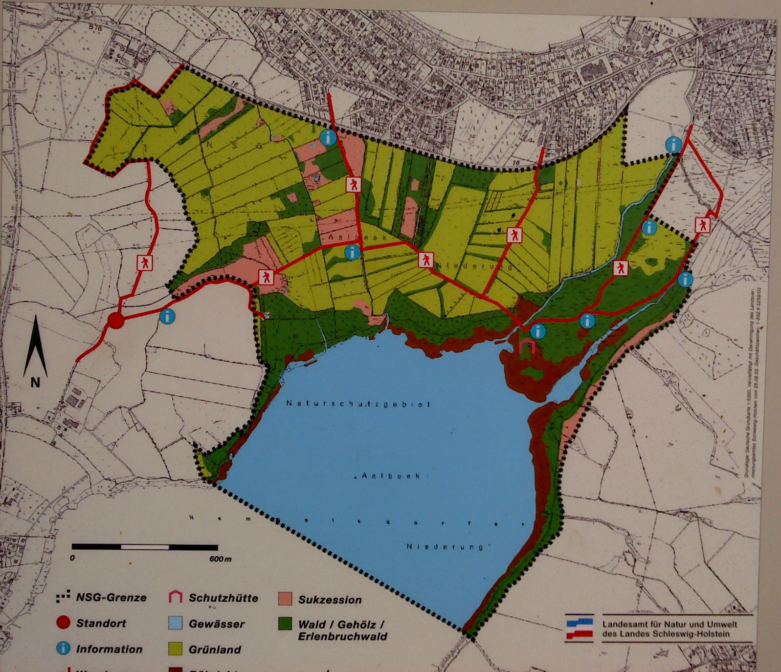 Detail from the information board of Nature reserve Aalbeek